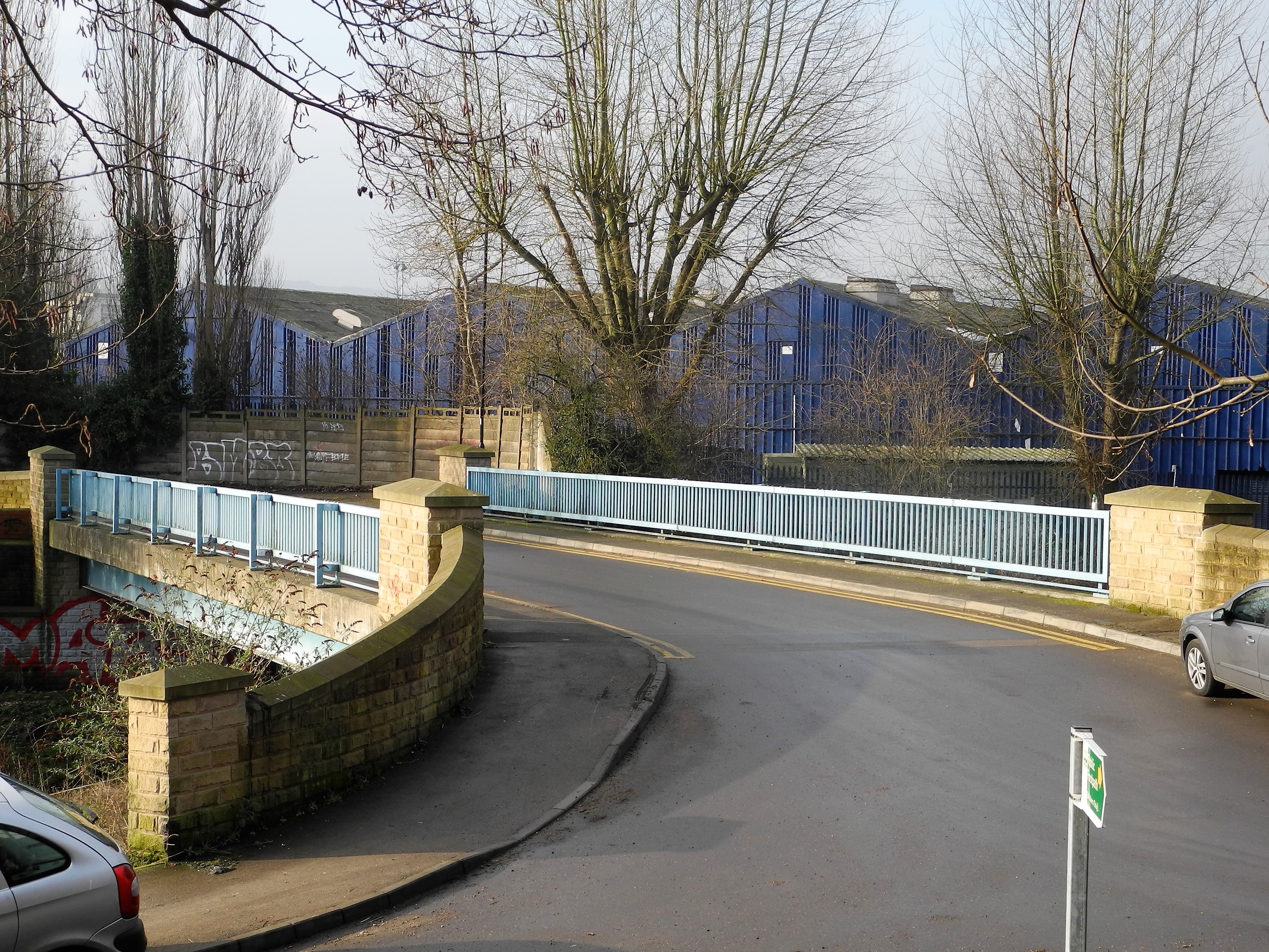 This is Wardsend bridge in the suburb of Owlerton in Sheffield, England. This bridge was constructed after the old one was swept away in the floods of June 2007.